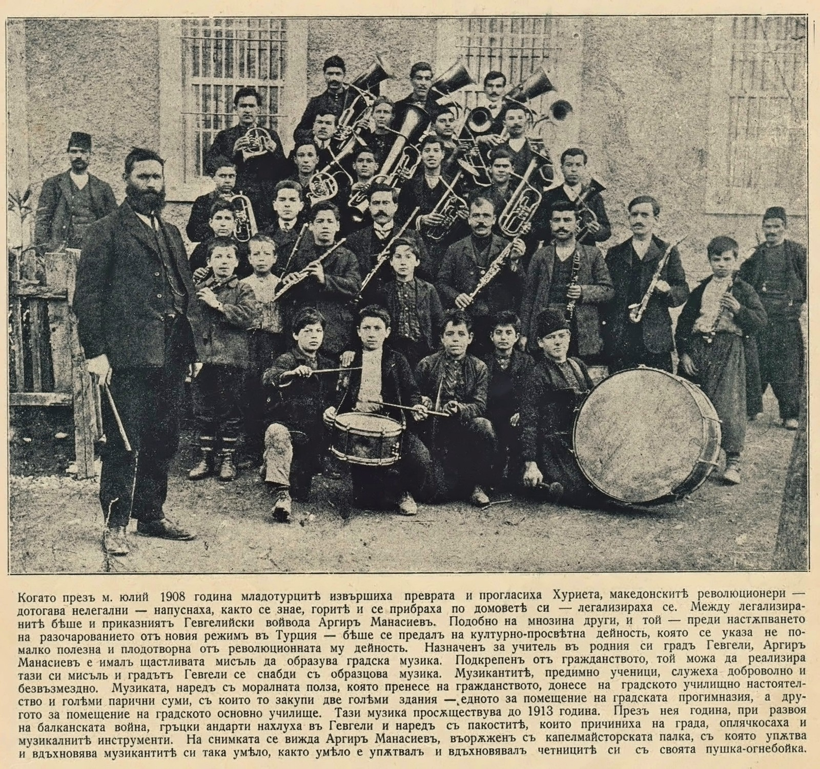 Argir Manasiev with the wind orchestra in Gevgeli, 1908